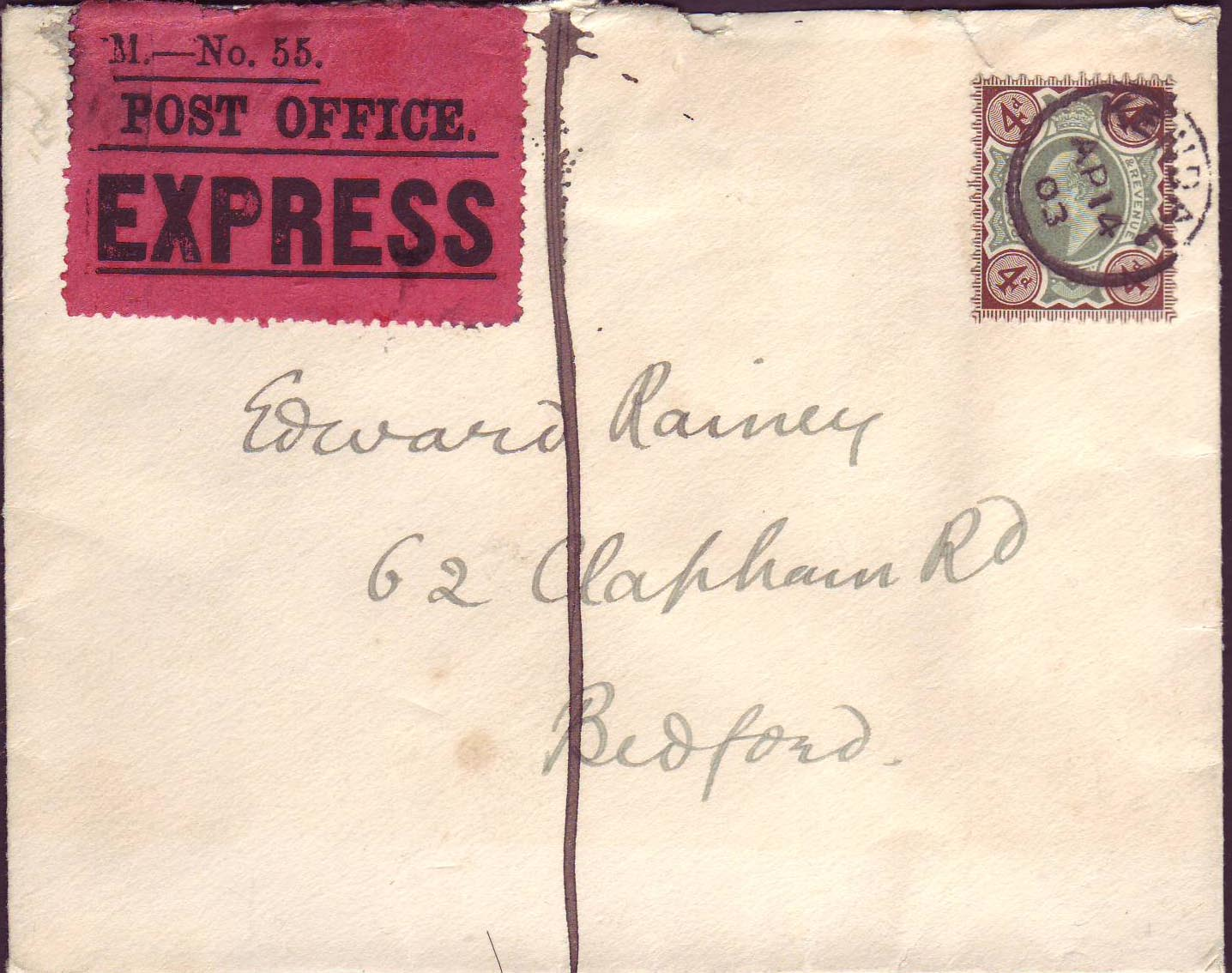 1903 express mail cover from Kendall to Bedford paid with British 4d stamp. Official Royal Mail (Post Office) express mail lable is affixed and the vertical line also indicates that express service is required.